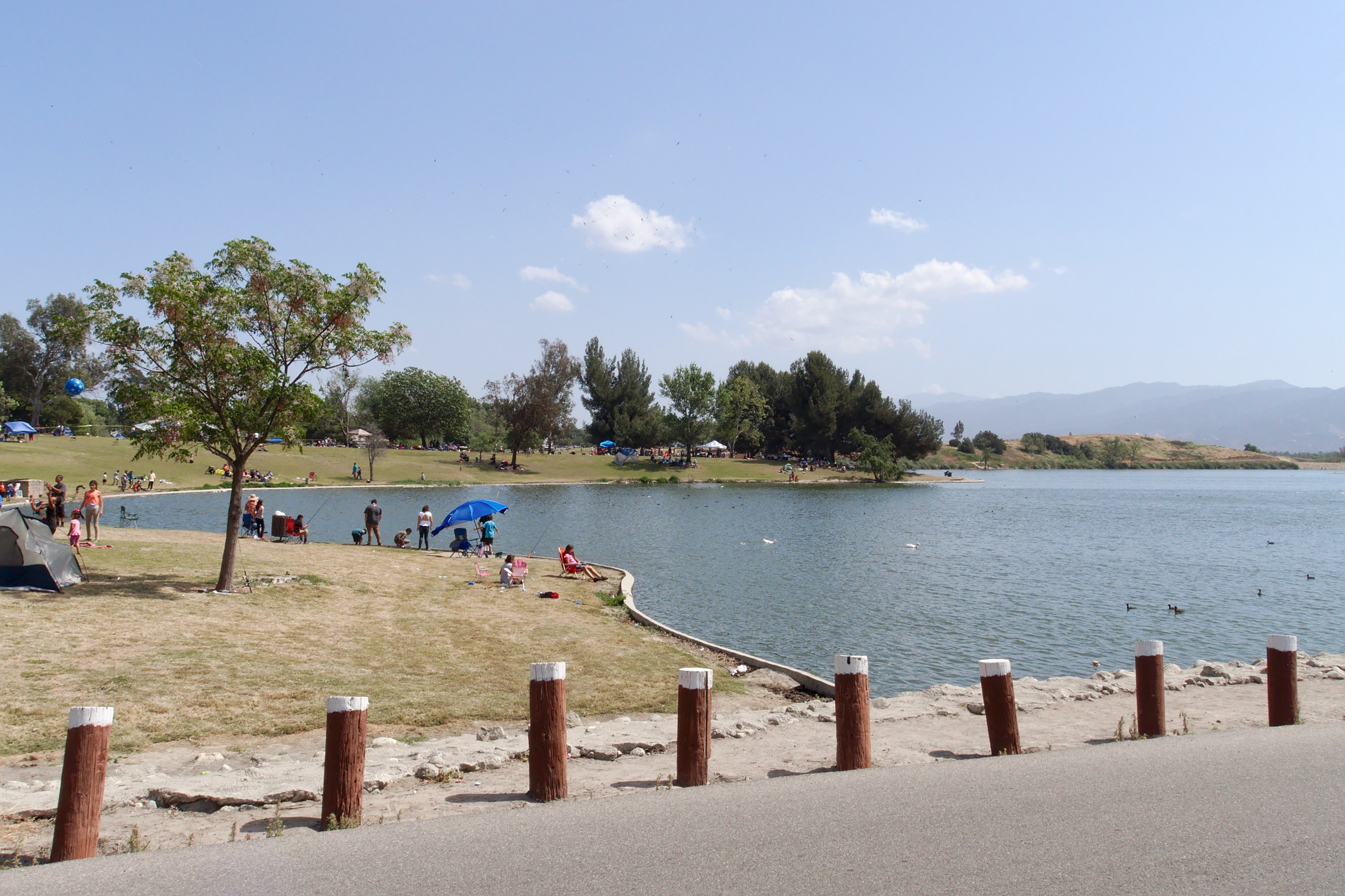 The "lake" at Prado Regional Park, Easter Sunday.